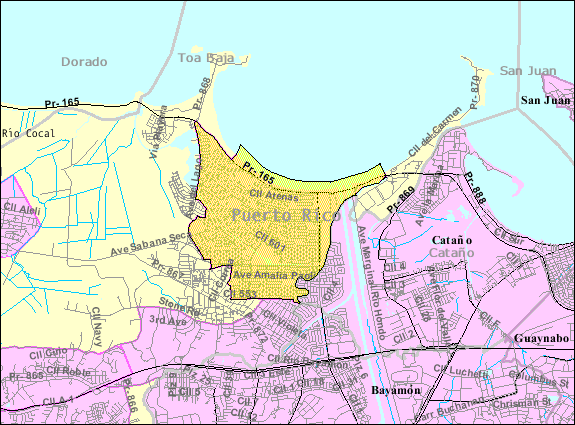 US Census map of Levittown, Puerto Rico